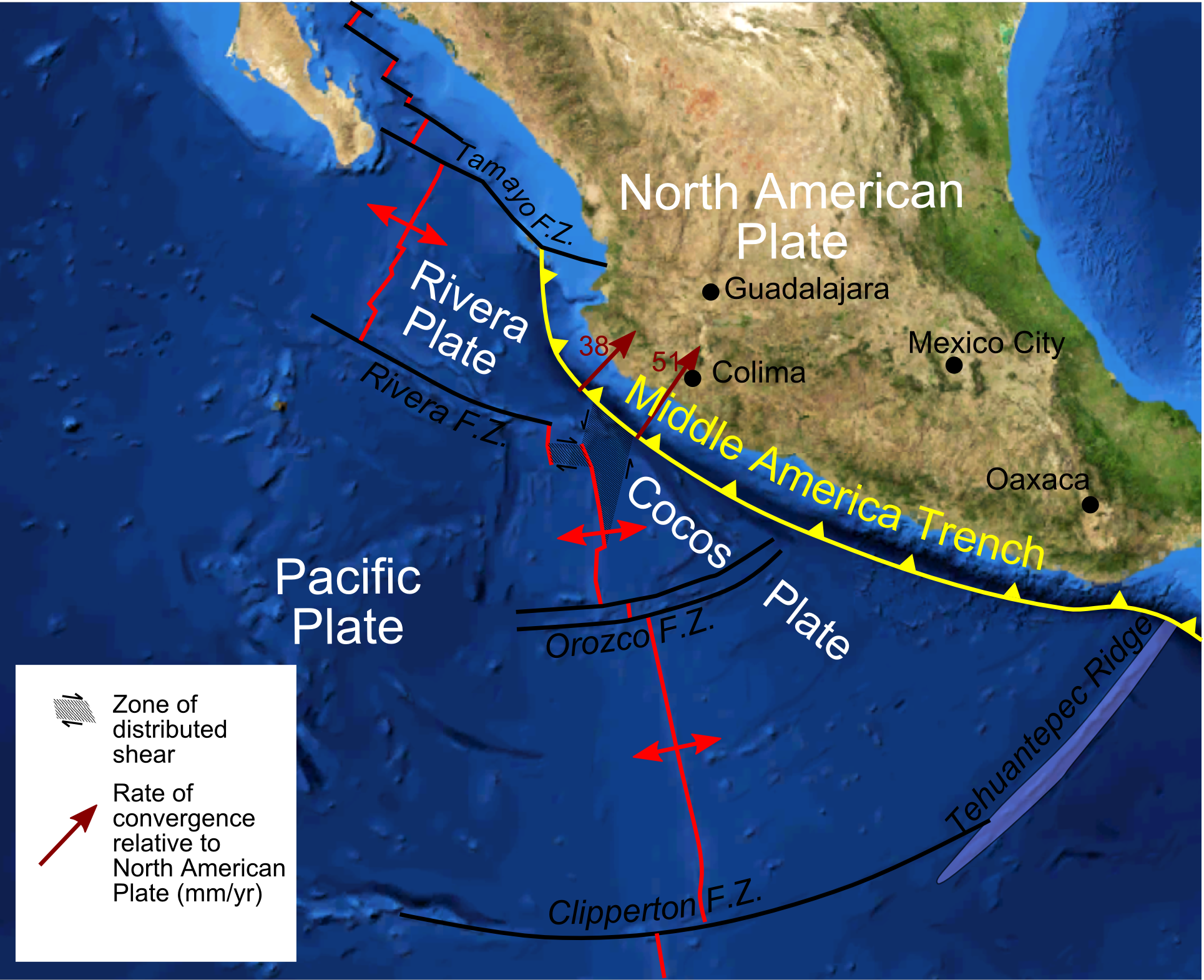 Map of plate boundaries on the Pacific coast of western Mexico on a a base of a screenshot from Nasa World Wind software - boundaries taken from a variety of sources including Pardo & Suarez 1995, de Mets & Wilson 1997